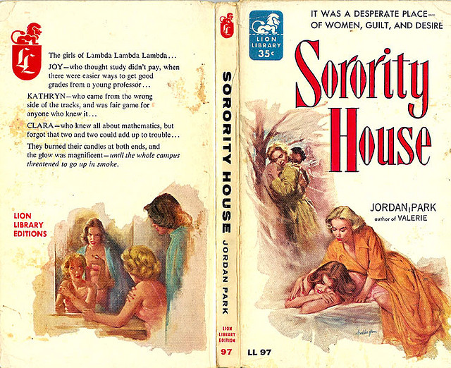 Cover of "Sorority Houset" by Jordan Park (Cyril Kornbluth). Illustration by Clark Hulings.